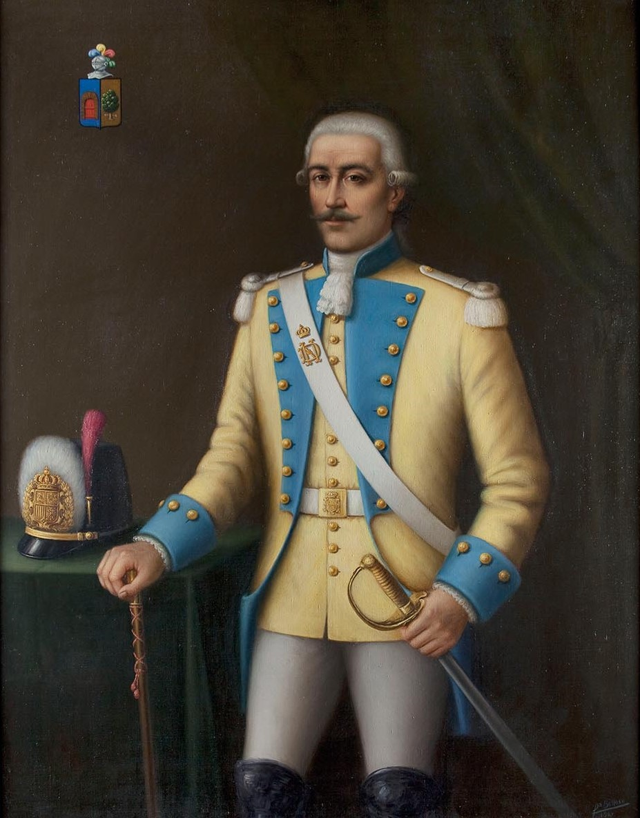 Portrait of Gaspar de Portolà held at the Parador de Turismo de Arties, Portolà's family home in Catalonia (today a cultural center)